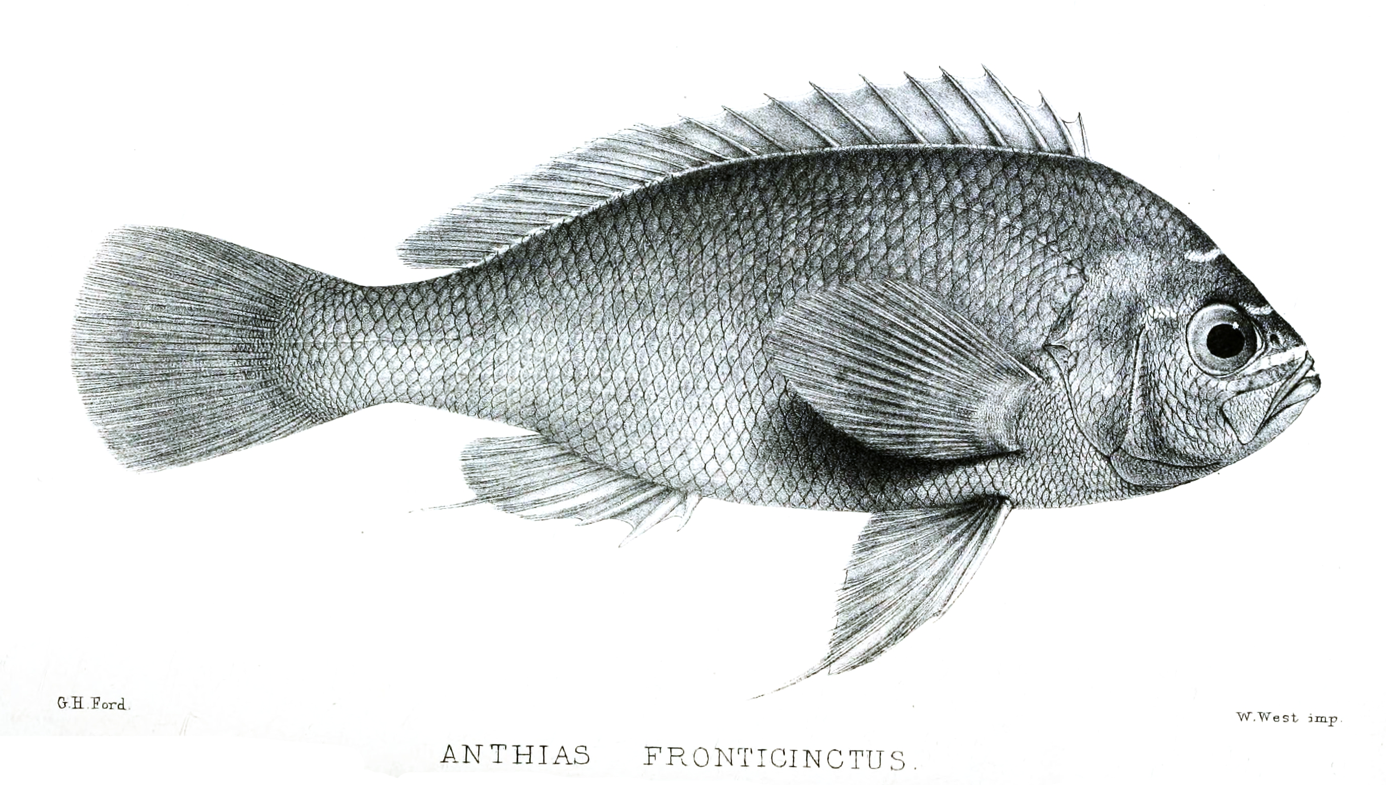 St. Helena Seaperch